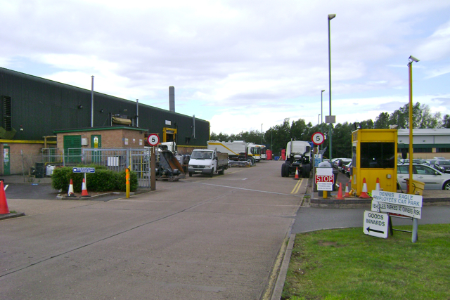 Dennis Eagle works entrance, Heathcote Industrial Estate, Warwick/Leamington The company makes refuse collection vehicles. This view from Heathcote Way.